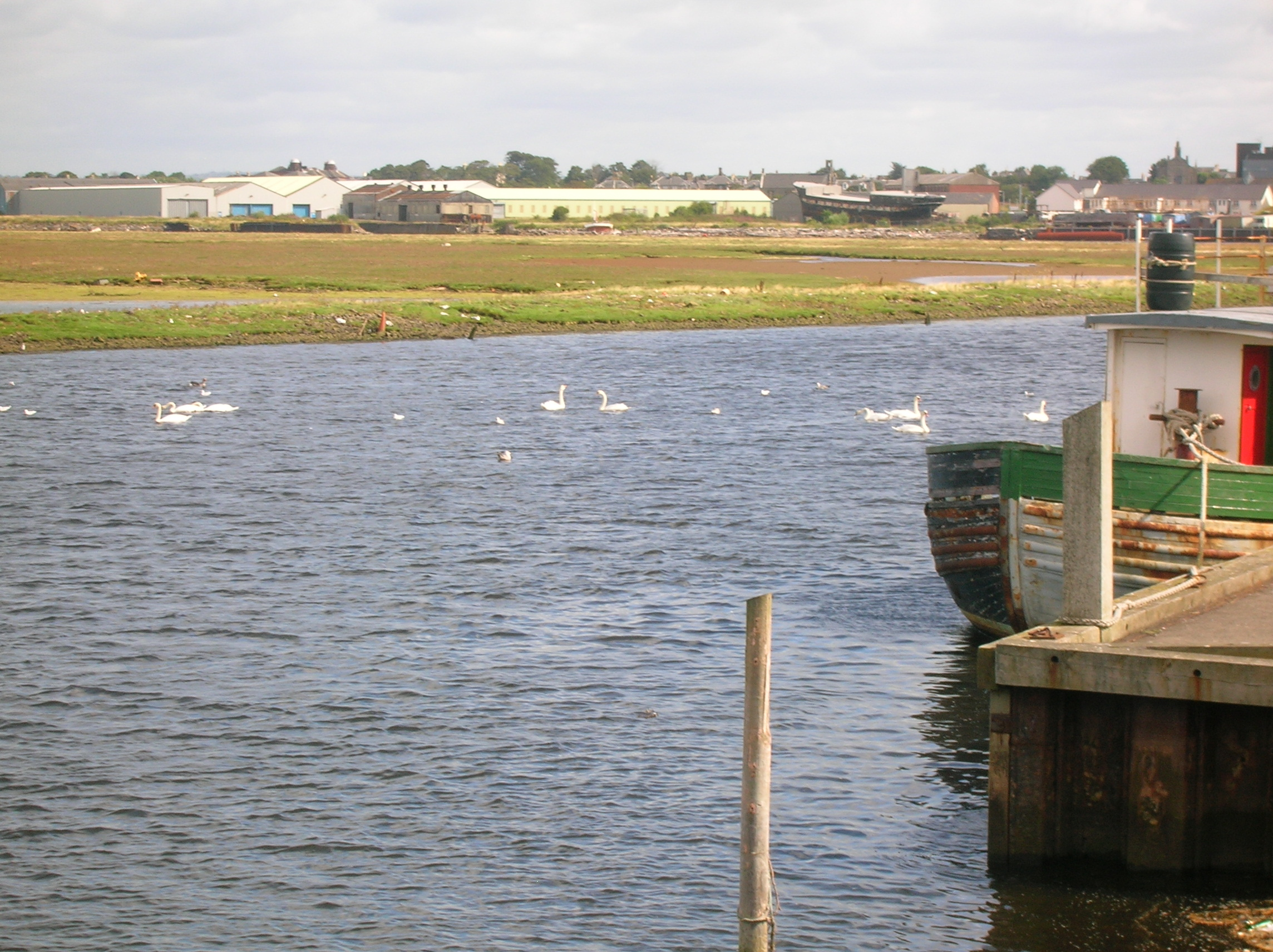 The Clipper City Of Adelaide, later renamed HMS Carrick, and finally SV Carrick. The hull is visible on a slipway at the Scottish Maritime museum, Irvine, North Ayrshire, Scotland. Rosser 09:14, 27 August 2007 (UTC)